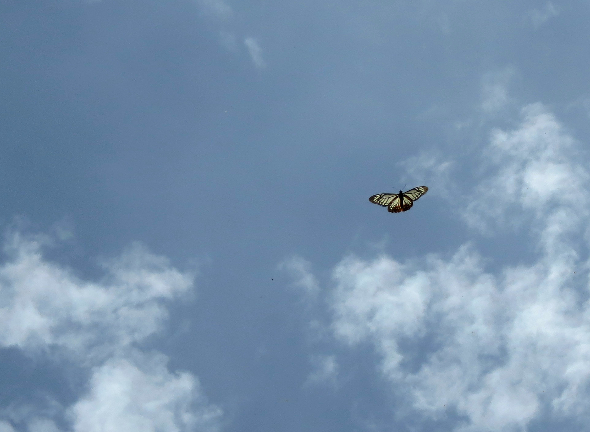 Papilio agestor (Tawny Mime) butterfly seen in Nainital, Uttarakhand, India